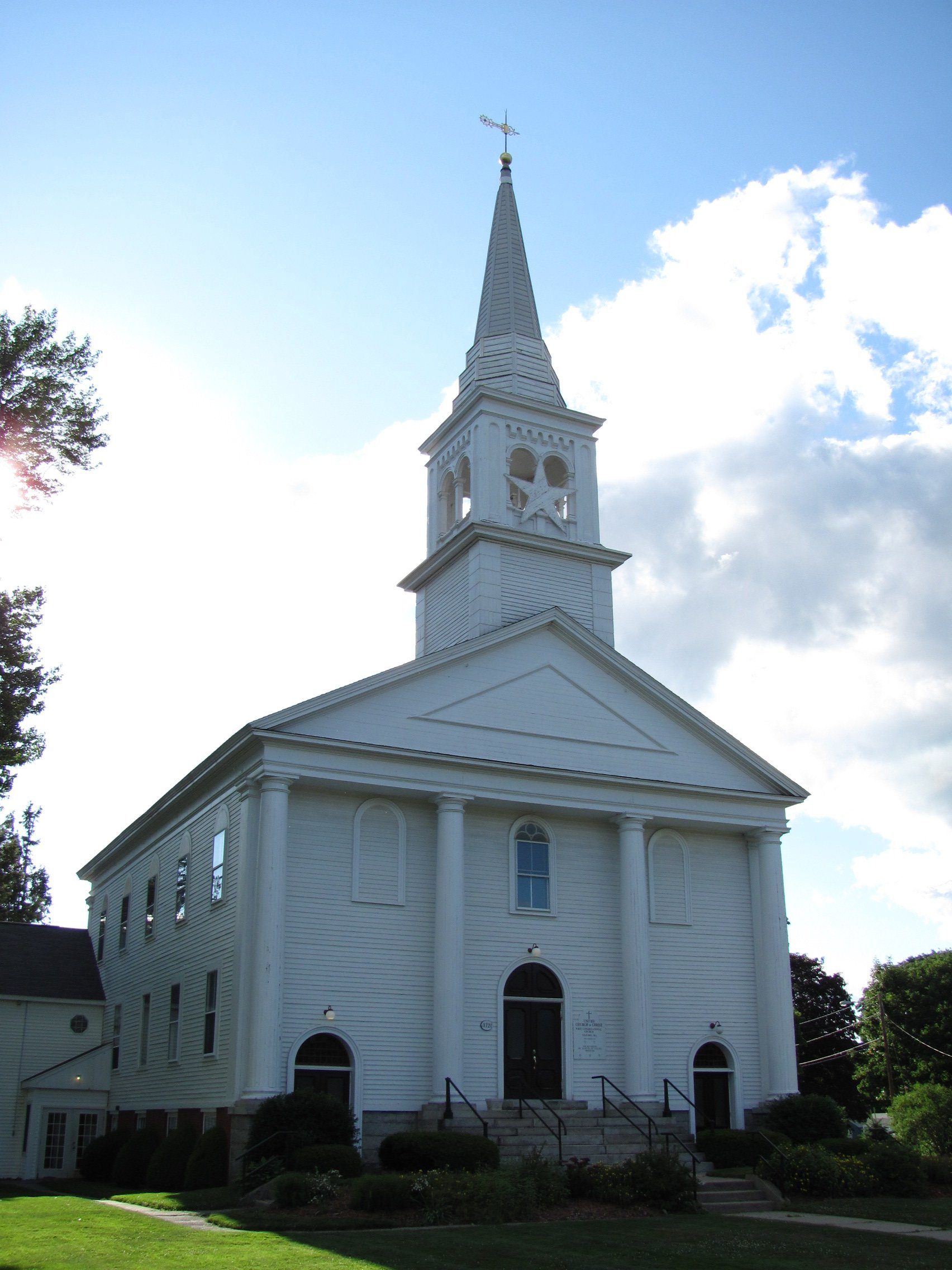 First Congregational Church, Oxford Massachusetts